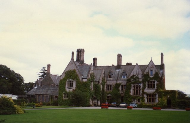 Lingholm